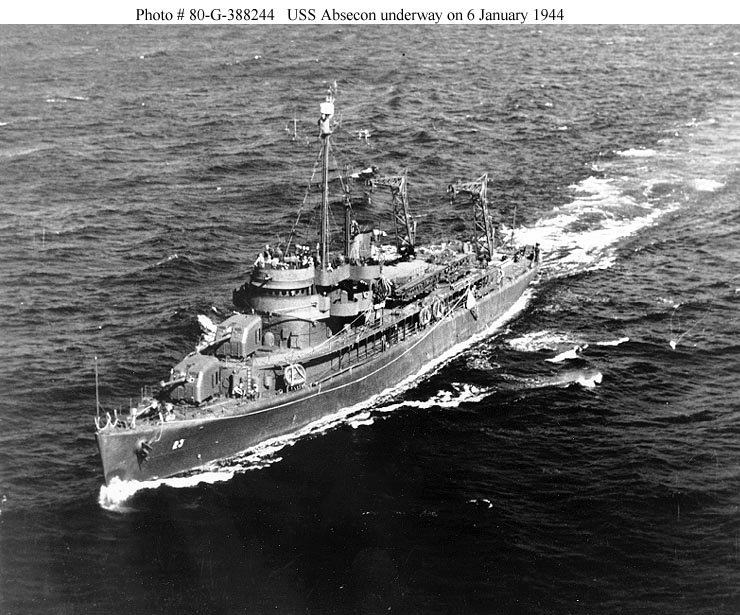 United States Navy seaplane tender USCGC Absecon (AVP-23)